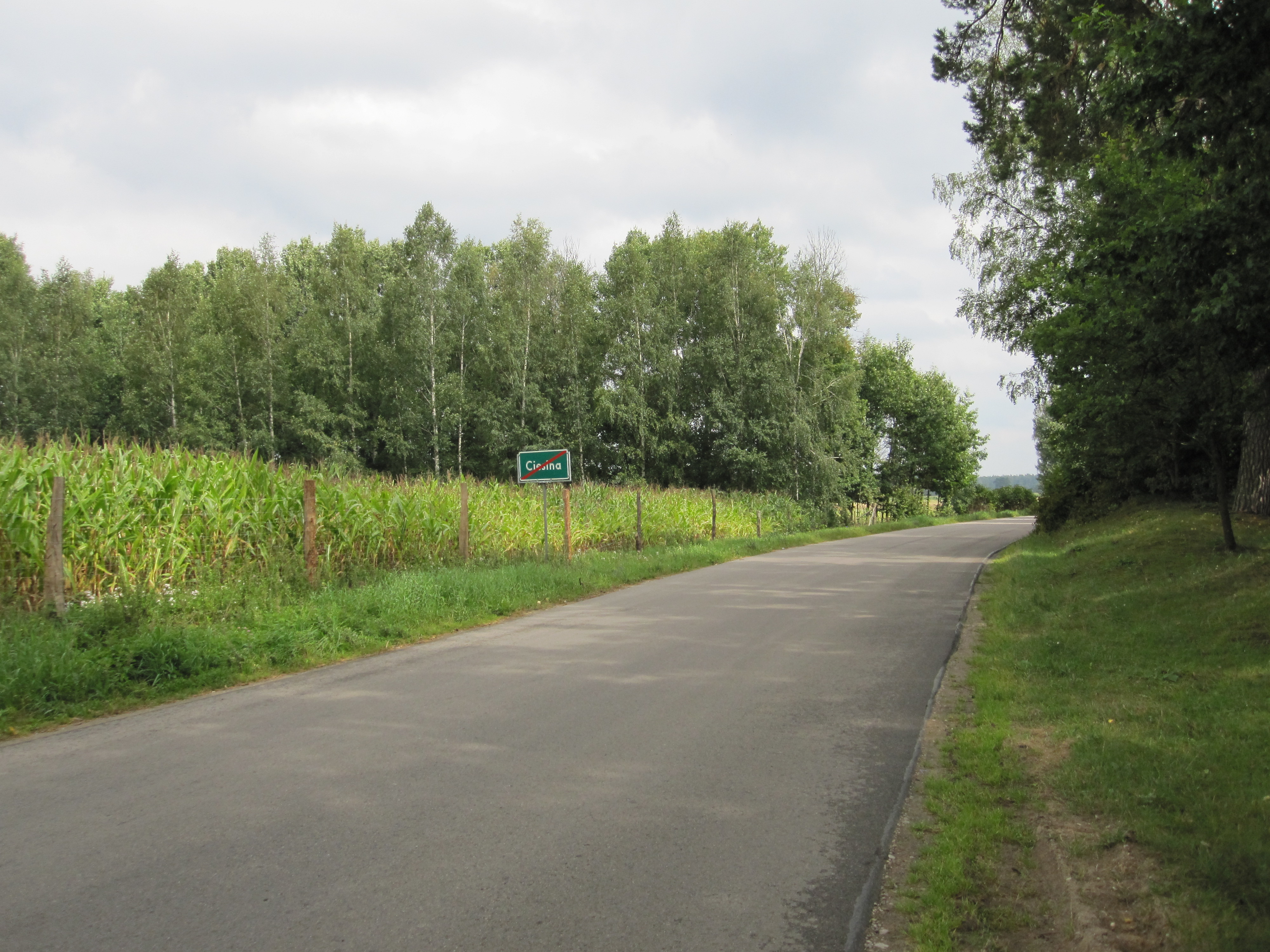 Ciesina, Pisz county